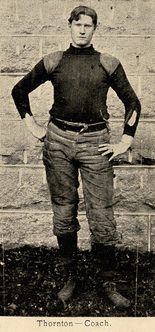 Thornton as coach of the 1894 Vanderbilt Commodores team, from the Supplement to "The Southern Magazine" for February, 1895